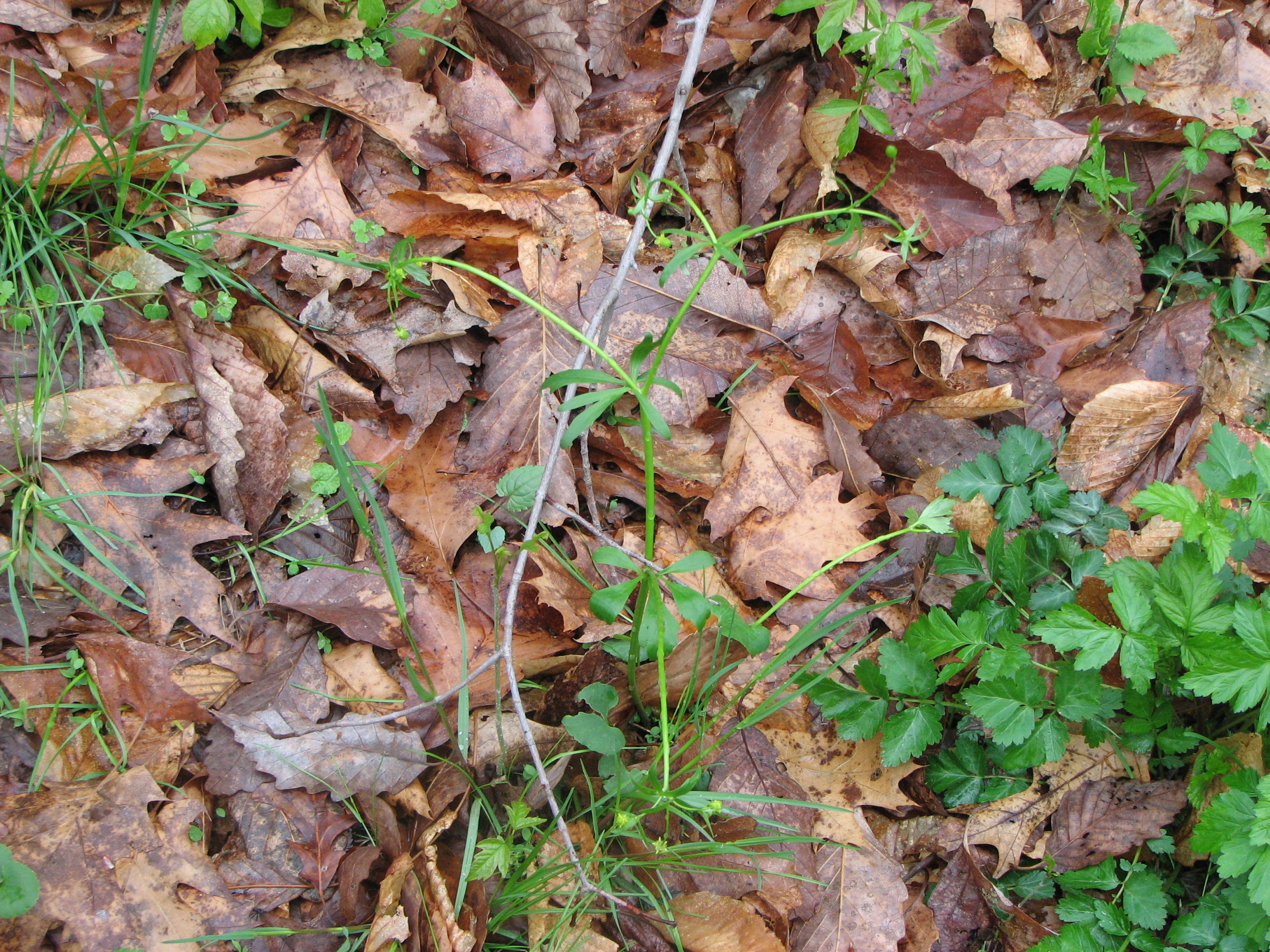 Kidneyleaf buttercup (Ranunculus abortivus), Brandywine Creek State Park, Delaware, USA.